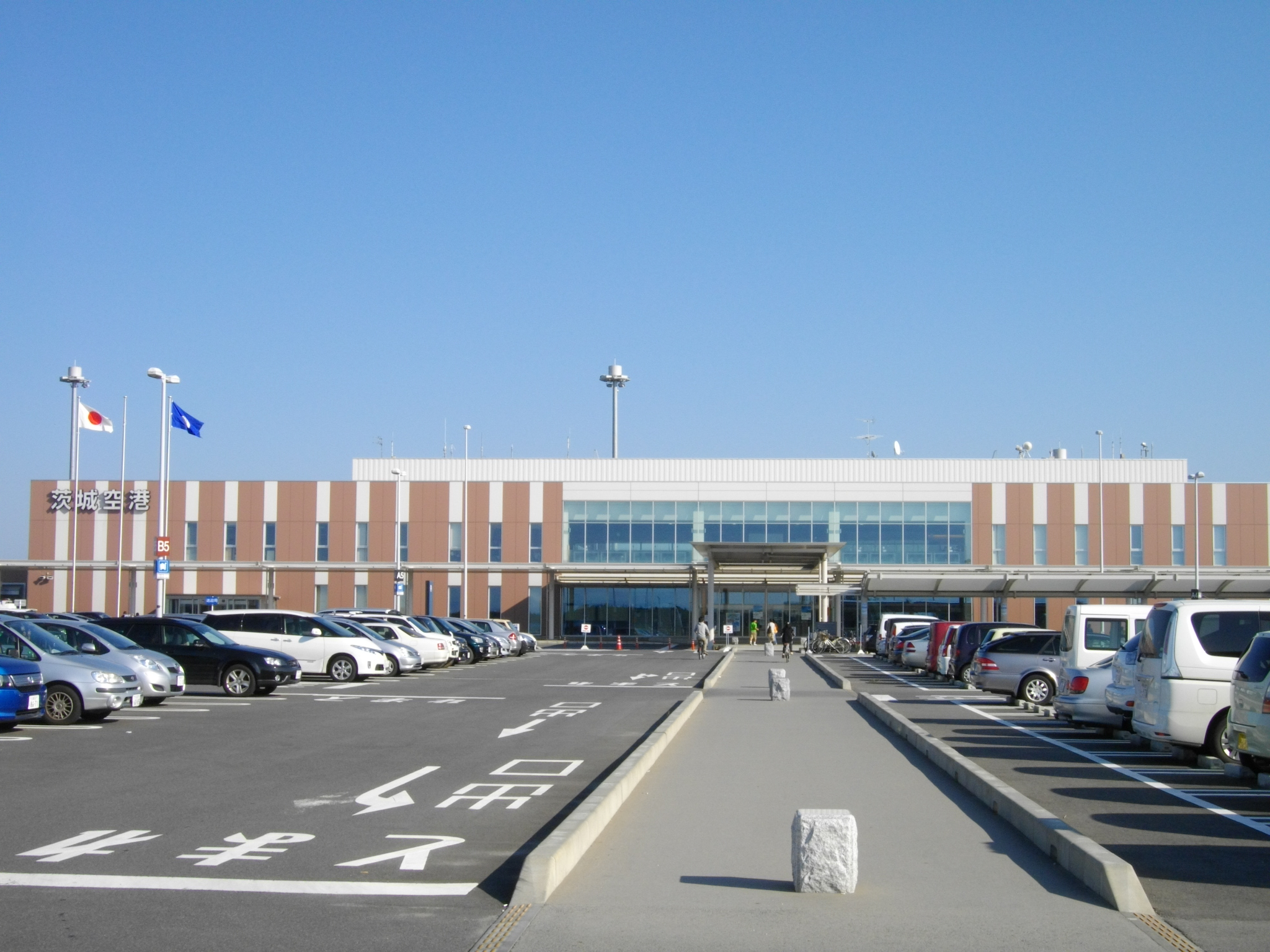 Ibaraki Airport